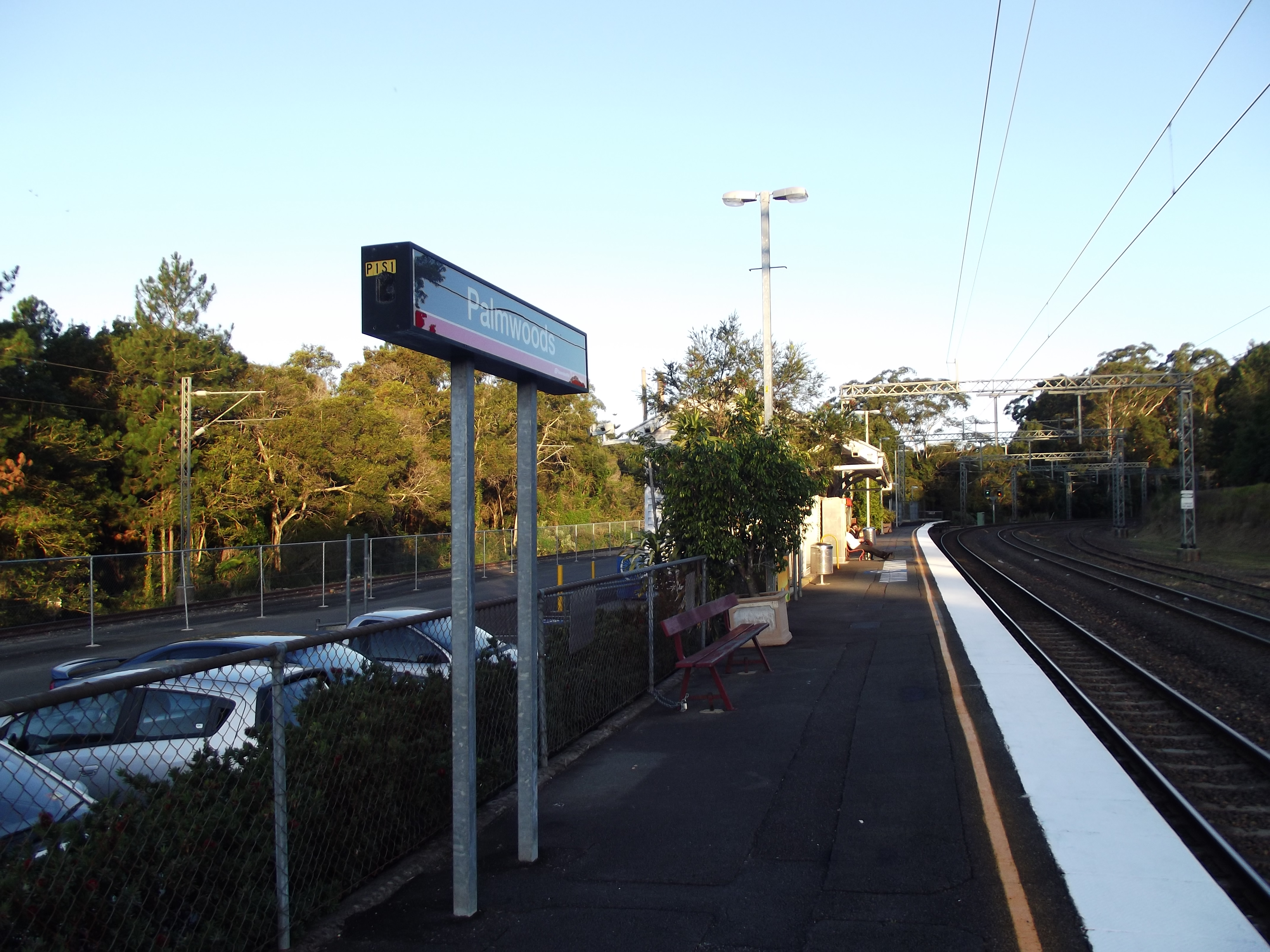 A photo of the Palmwoods railway station, operated by TransLink, located in Sunshine Coast, Australia.